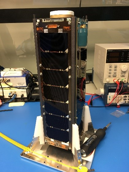 The fully assembled STF-1 CubeSat, standing 34 cm tall and weighing in just under 3 kg.